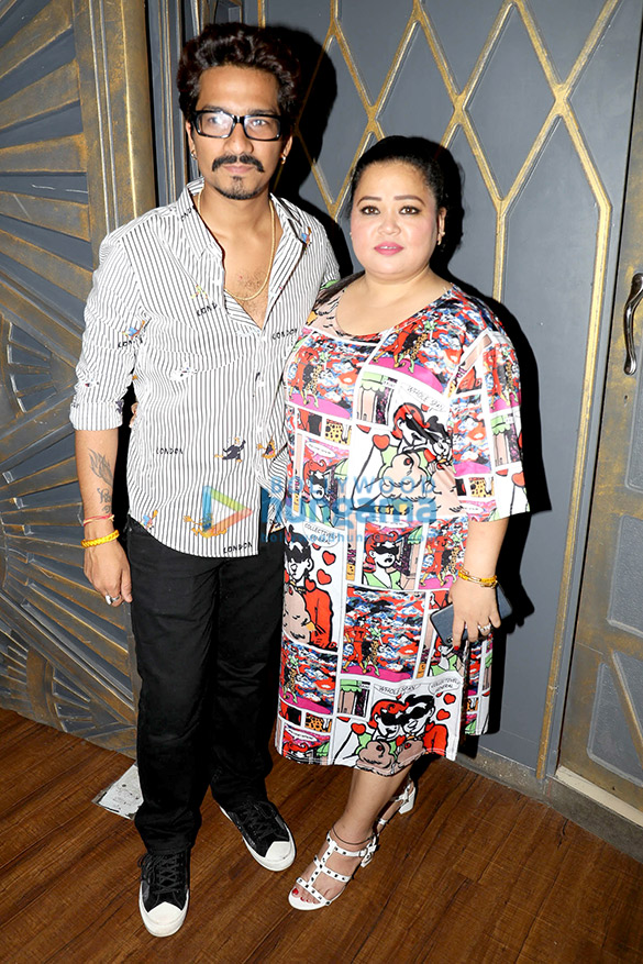 Birthday bash of Mika Singh at Sin City